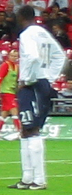 Emile Heskey. Image cropped from original at flickr.